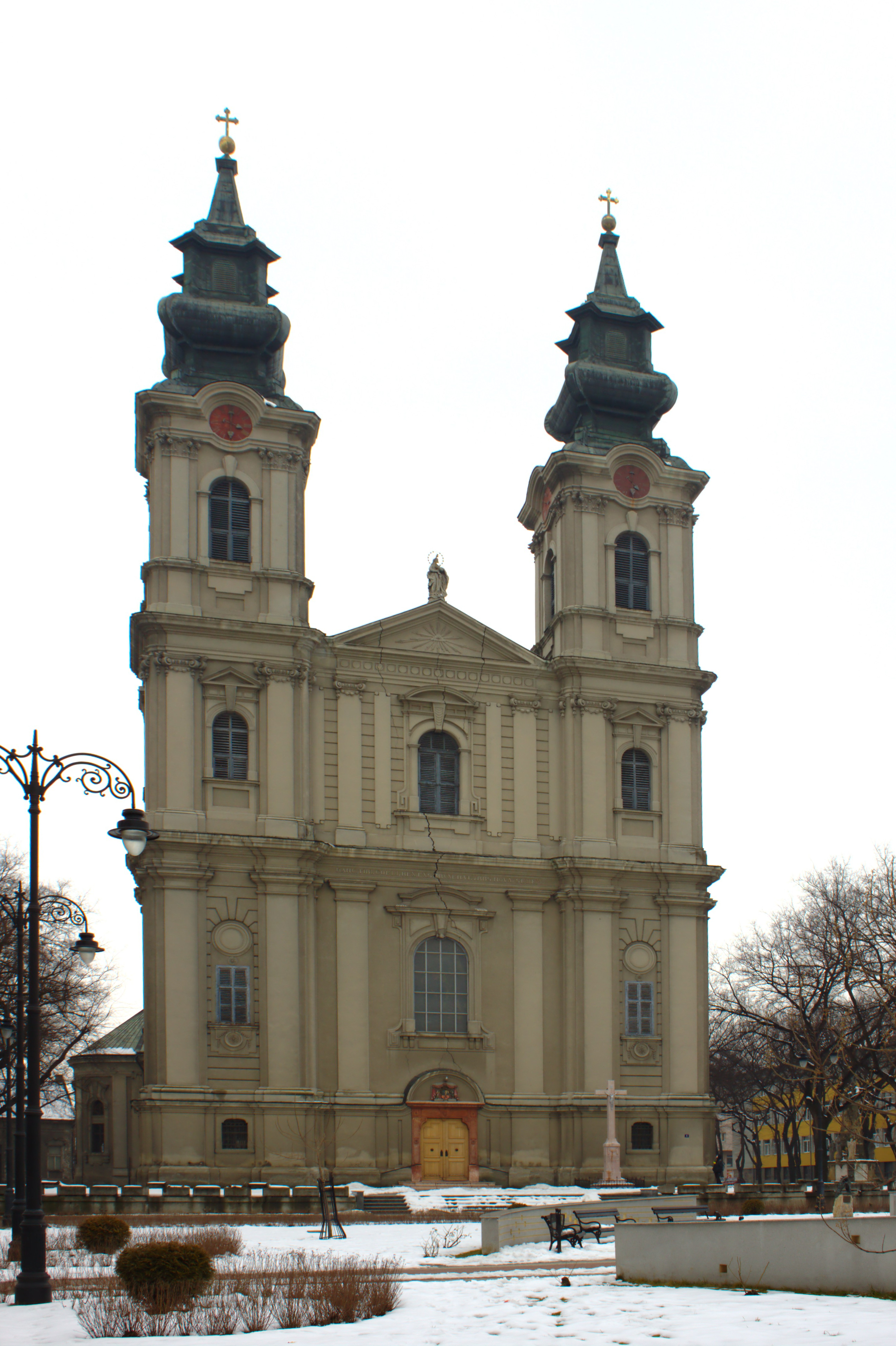 Baroque Roman Catholic cathedral of st. Theresia of Avila in Subotica at Trg žrtava fašizma (Square of the victims of fasism), Vojvodina, Serbia